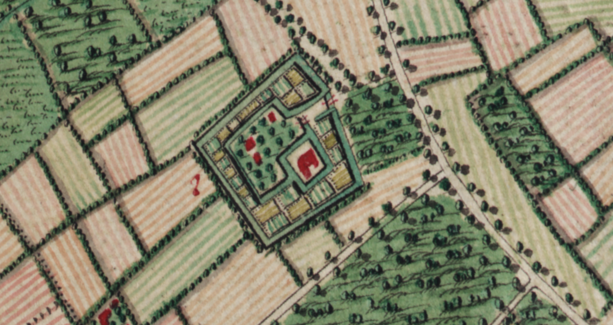 Reyvissche